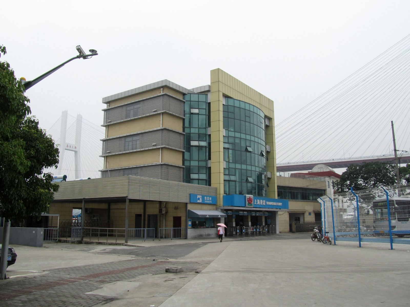 Nanmatou Rd Ferry